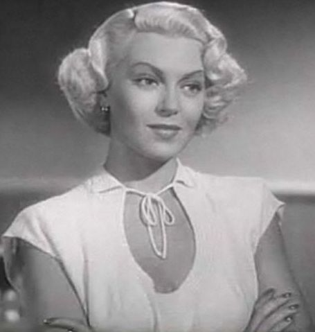 Screenshot of Lana Turner from the trailer for the film The Postman Always Rings Twice.